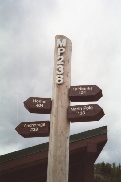 Parks Highway milepost 238, near Denali Natl. Park